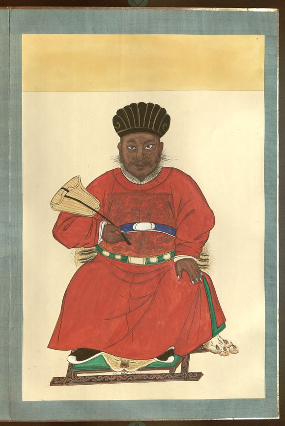 Mu Gao, a local commander of Lijiang